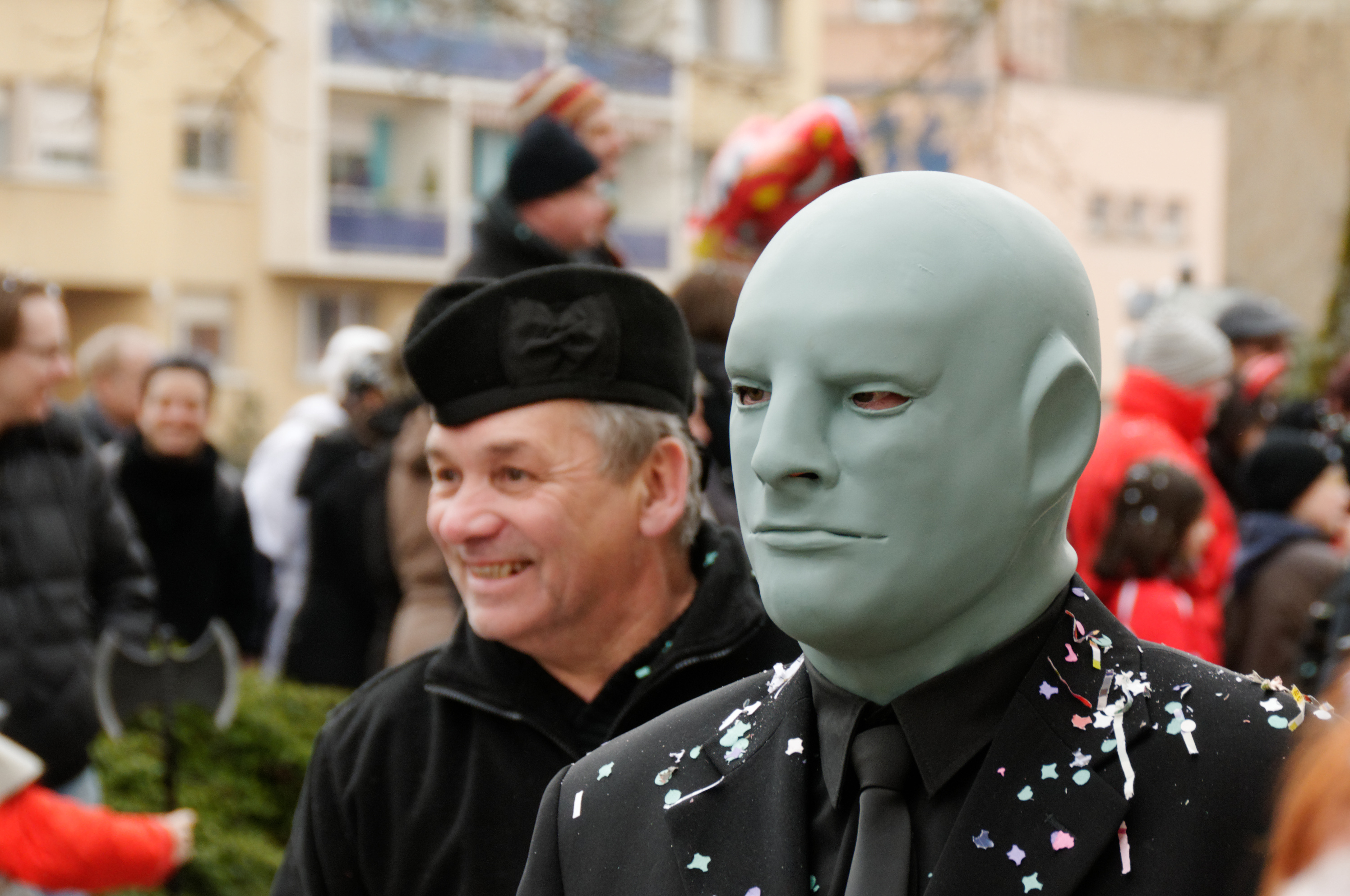 This photograph was taken with a Nikon D300 Personality rights warningAlthough this work is freely licensed or in the public domain, the person(s) shown may have rights that legally restrict certain re-uses unless those depicted consent to such uses. In these cases, a model release or other evidence of consent could protect you from infringement claims.